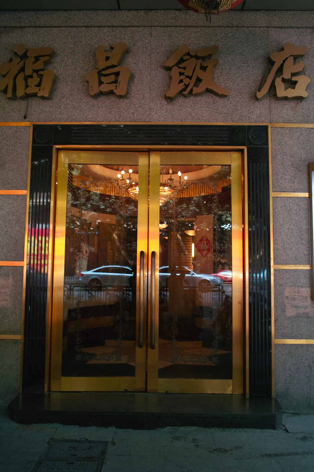 FuChang Hotel, Nanjing